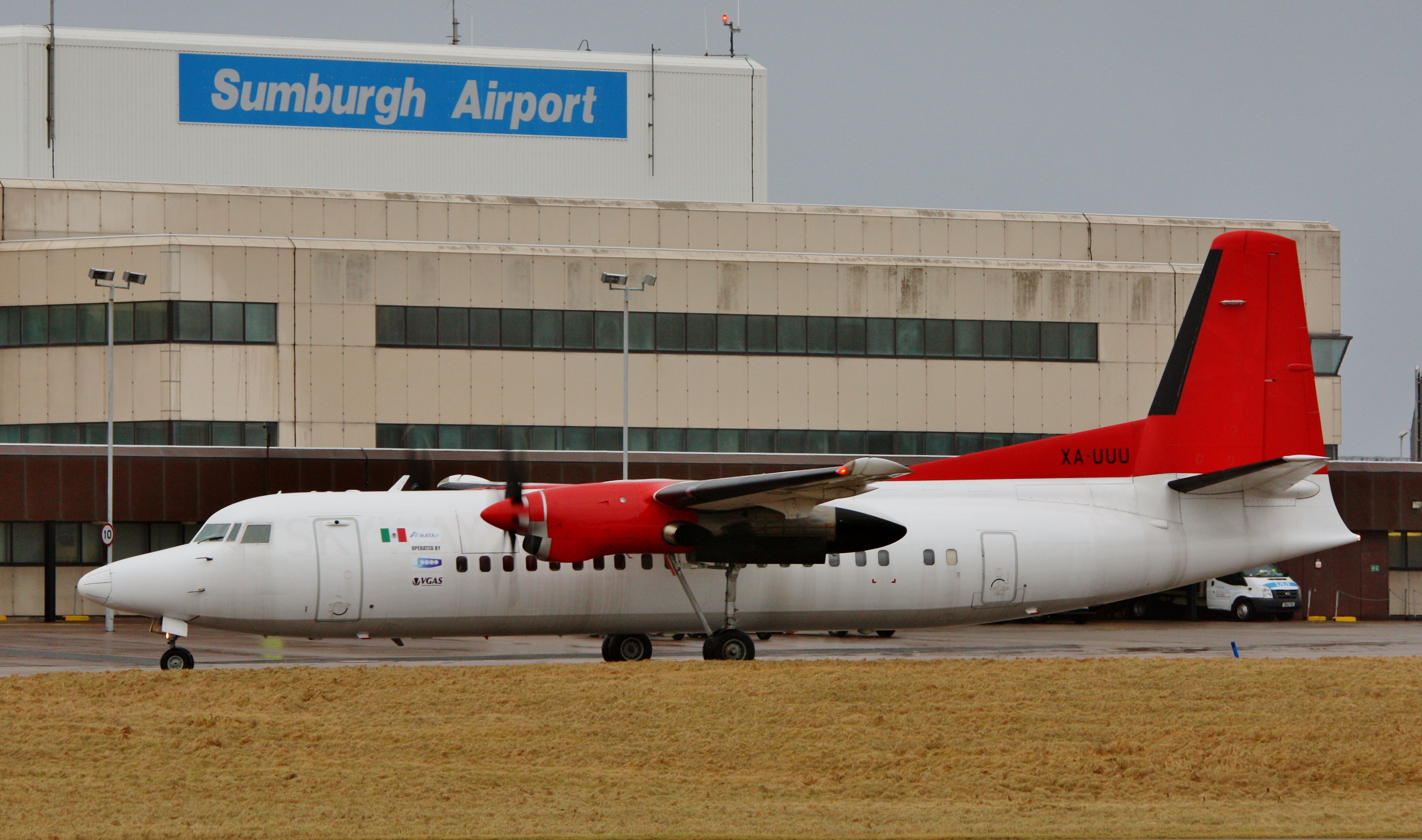 Taxiing for departure from Sumburgh, believed to be heading for Iceland.